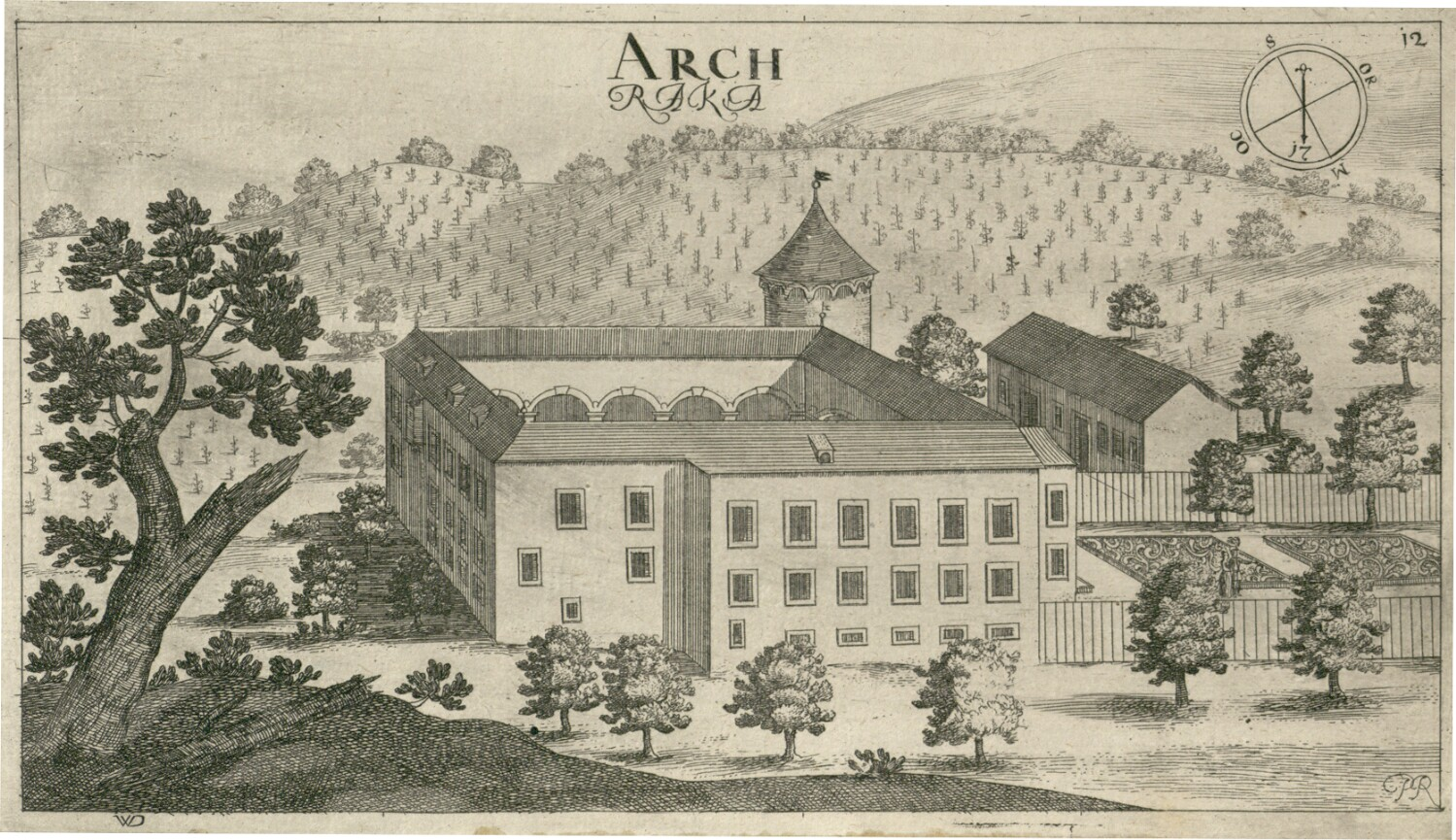 Castle Raka